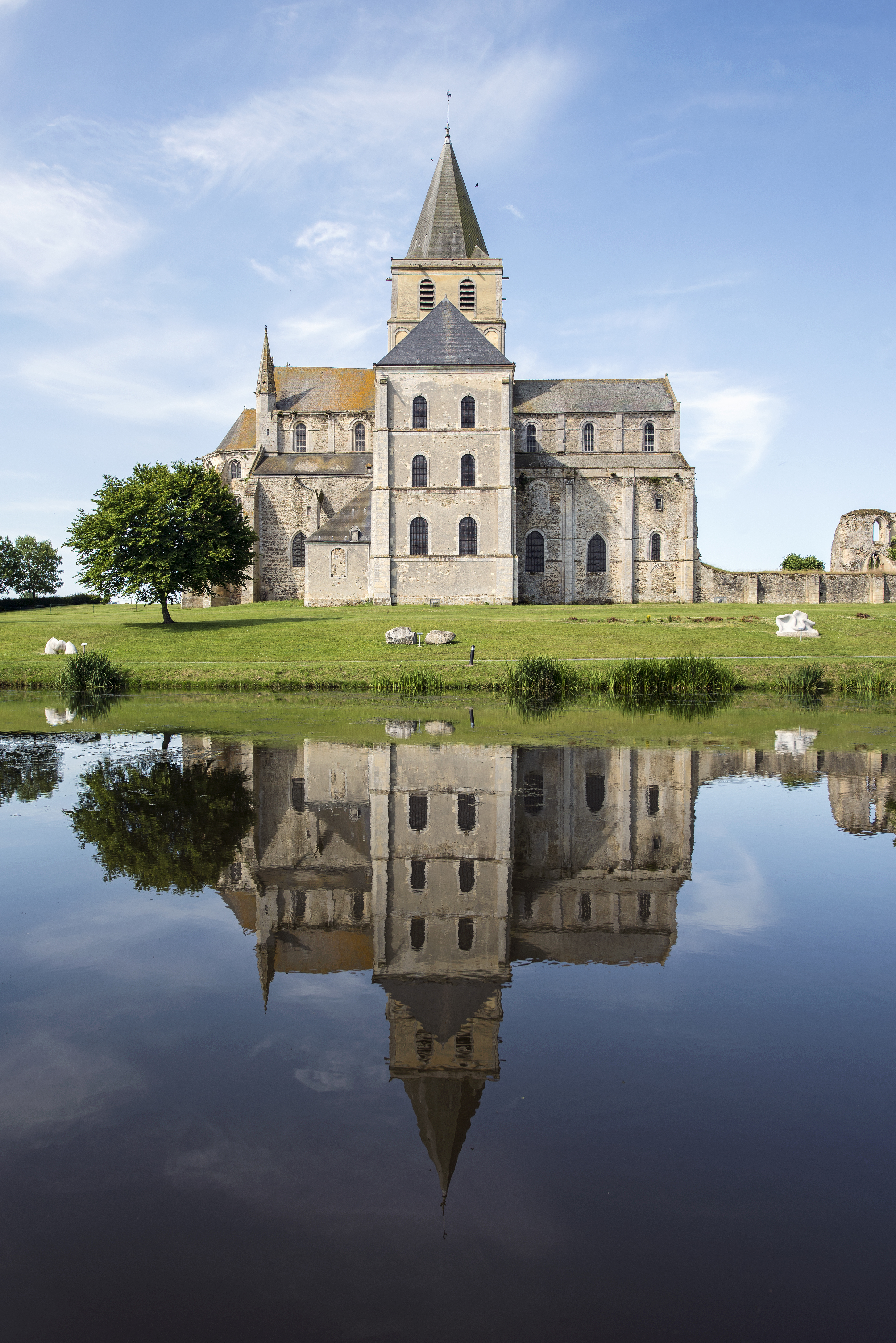 Saint-Vigor church, Cerisy-la-Forêt, Normandy, France.